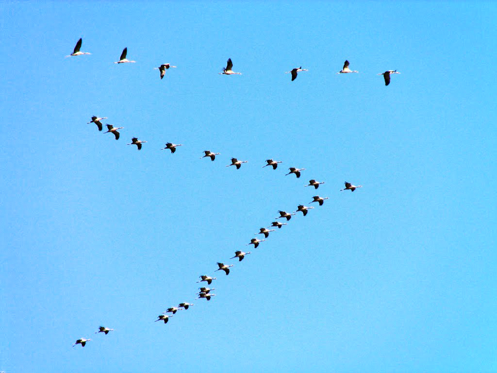 Eurasian Cranes migrating to Meyghan Salt Lake, Markazi Province of Iran.